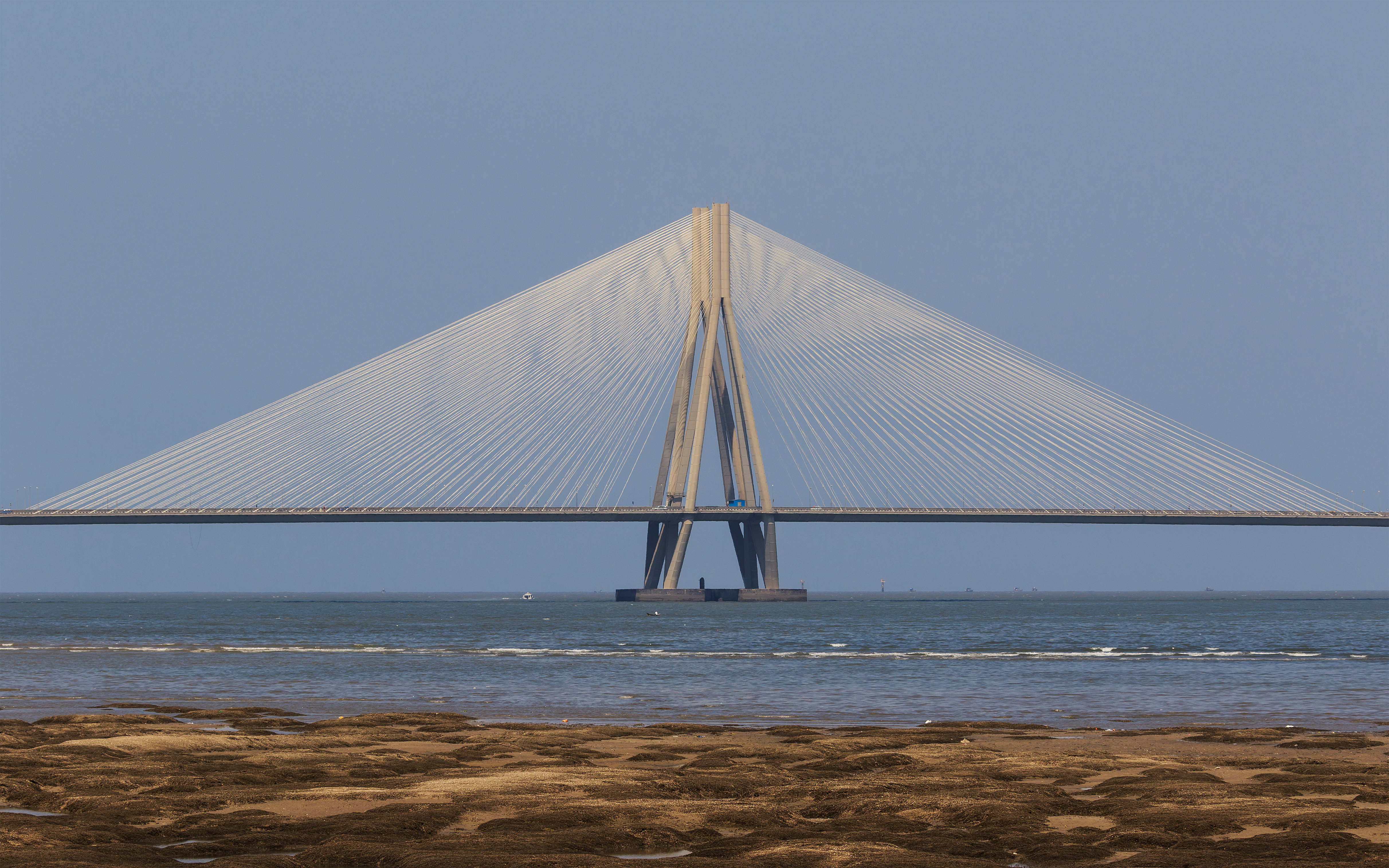 View from Dadar Beach to Bandra-Worli Sea Link in Mumbai, India